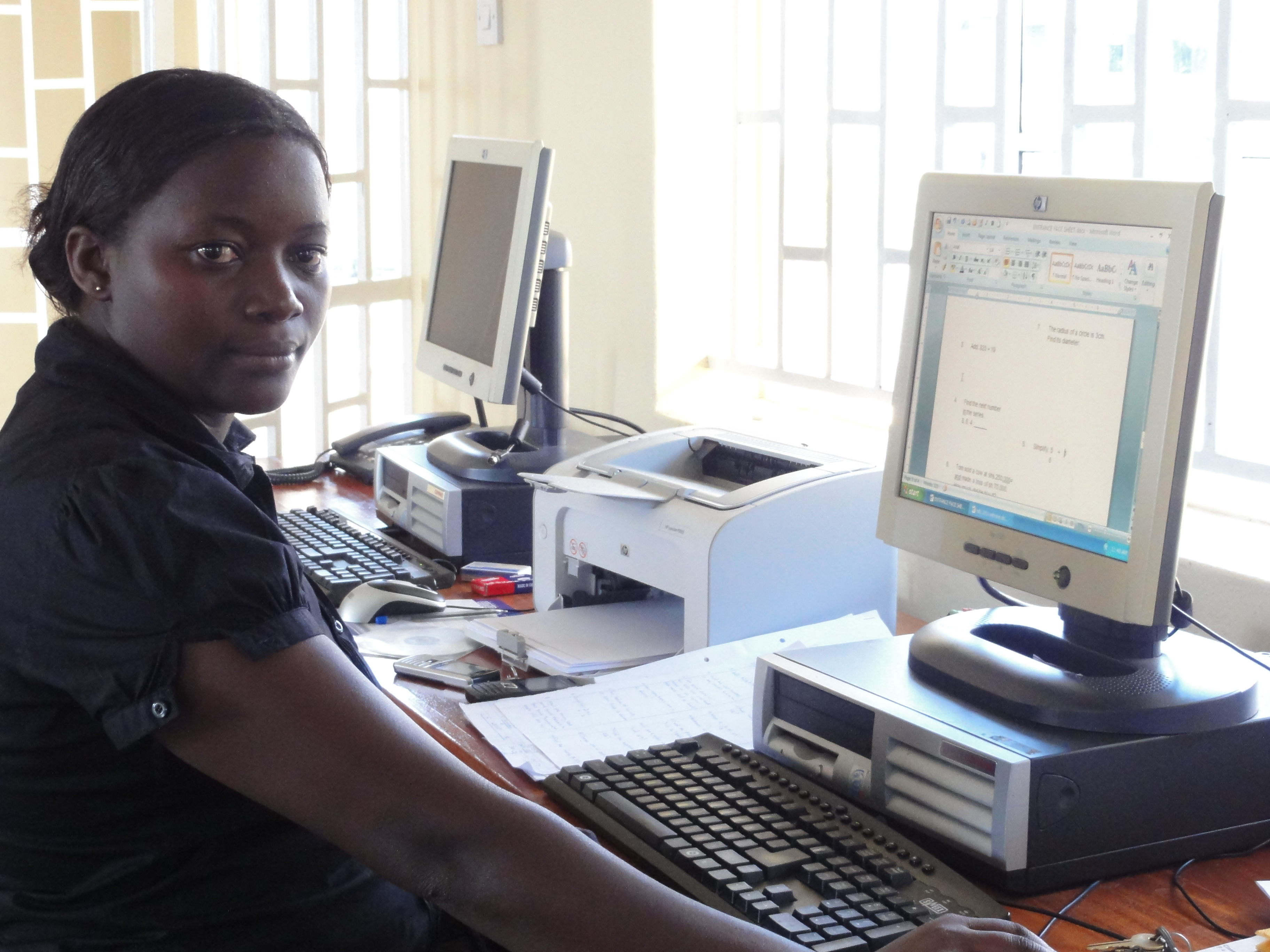 Computers in Uganda